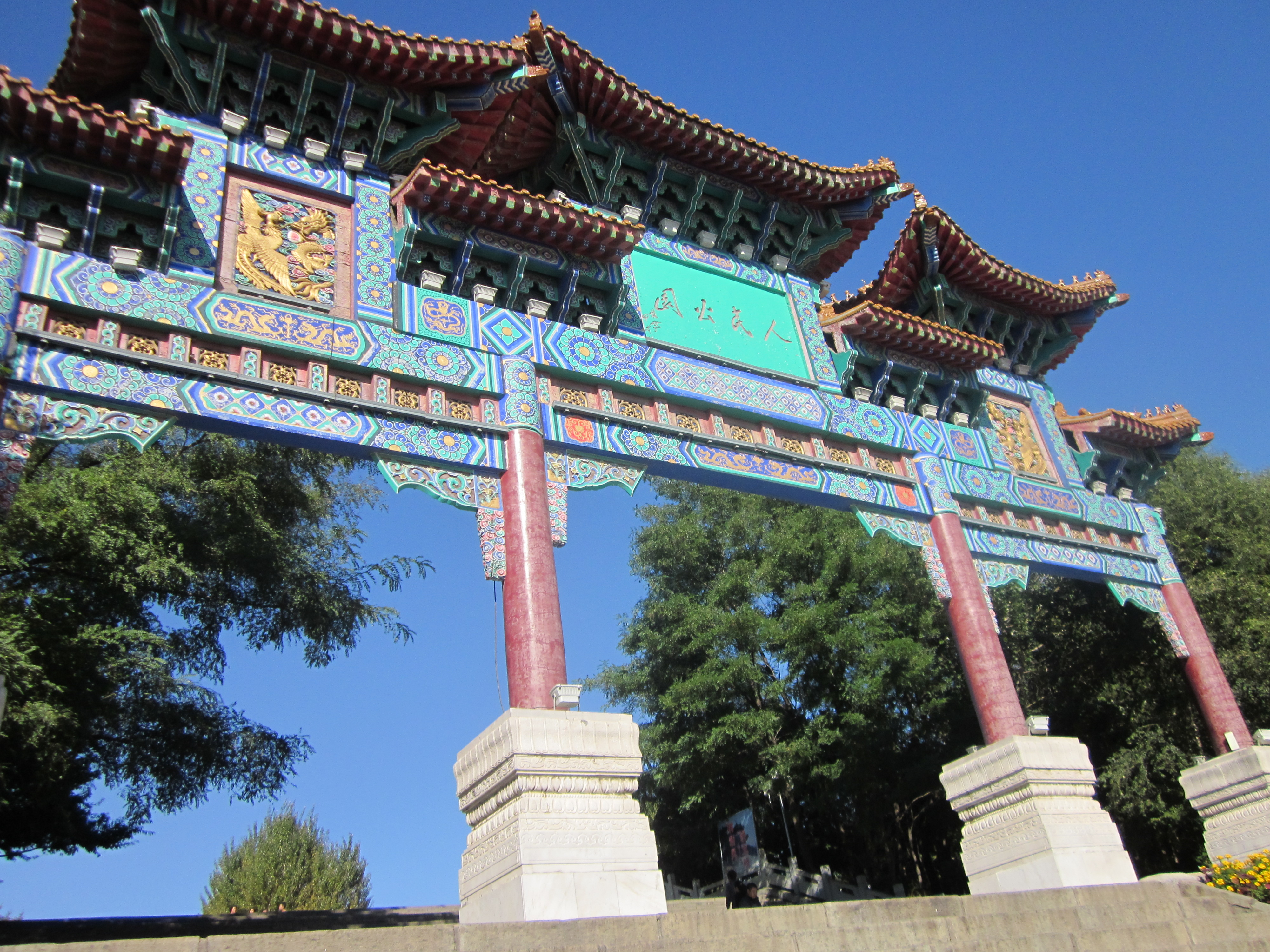 Longshou (literally the loong's head) Mountain Scenic Area in Yinzhou District, Tieling City